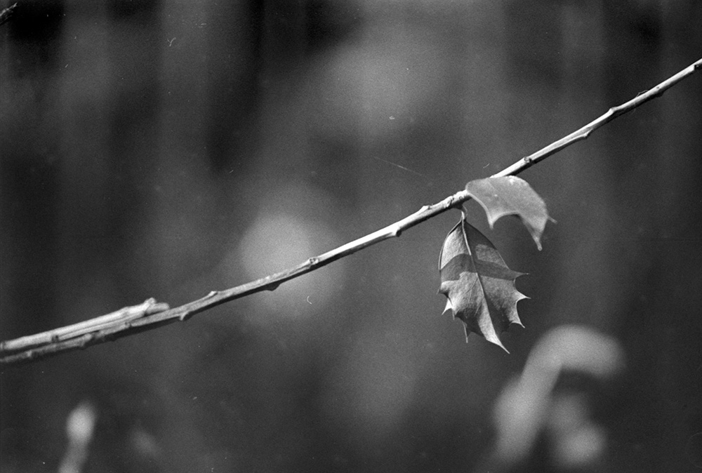 An example of suboptimal processing with stand development.